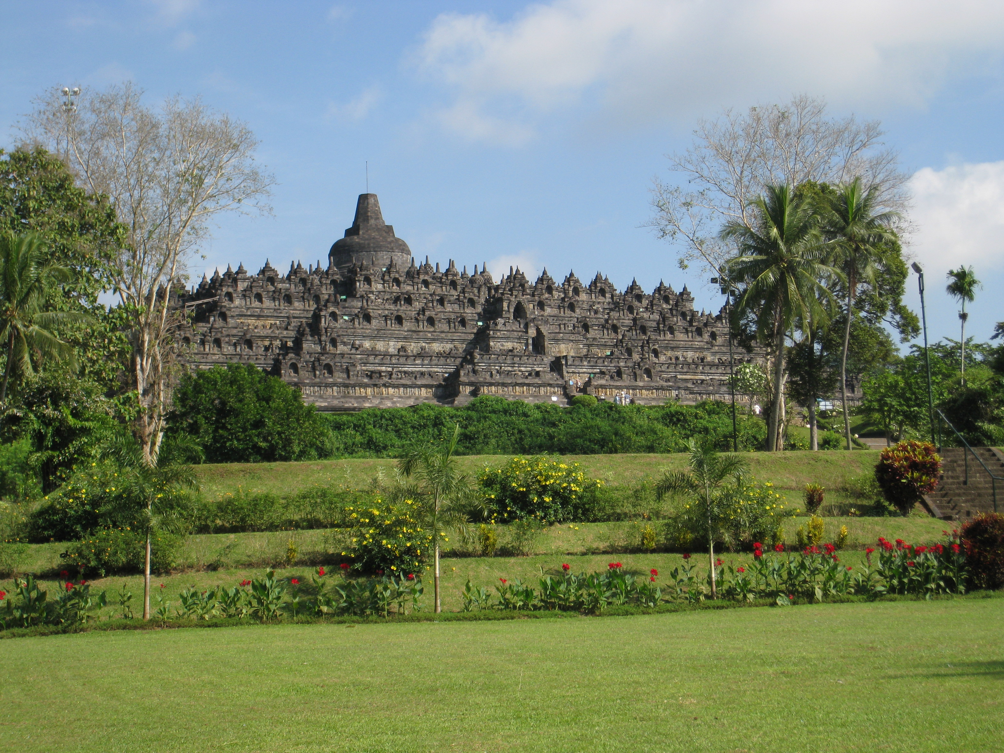 View of Borobudur, Indonesia